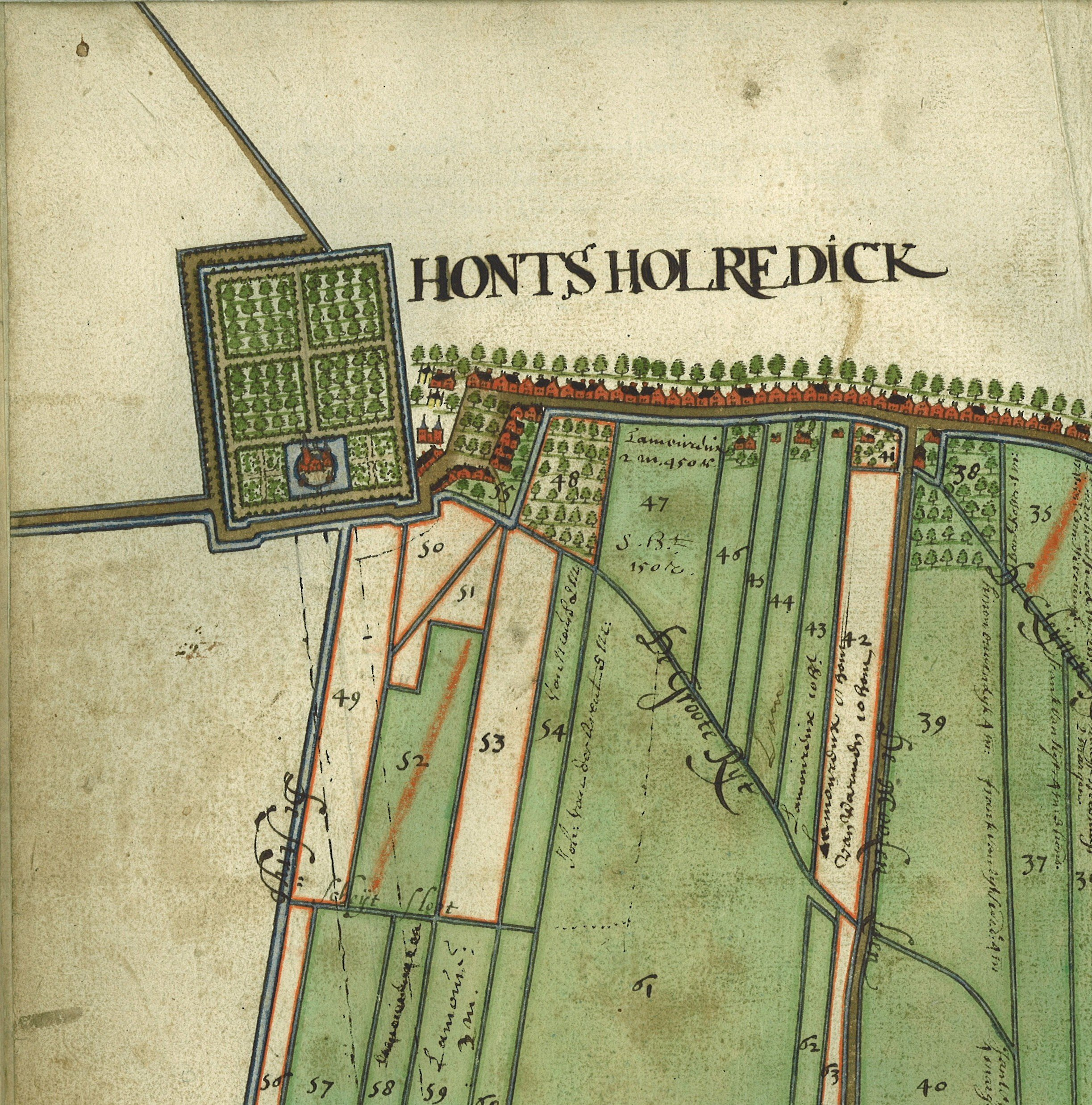 Map of the Dutch town Honselersdijk, made by Floris Jacobsz. The castle of prince Frederick Henry bought in 1612 is also on this map. The purpose of this map was to administrate the land owners and to collect the taxes.